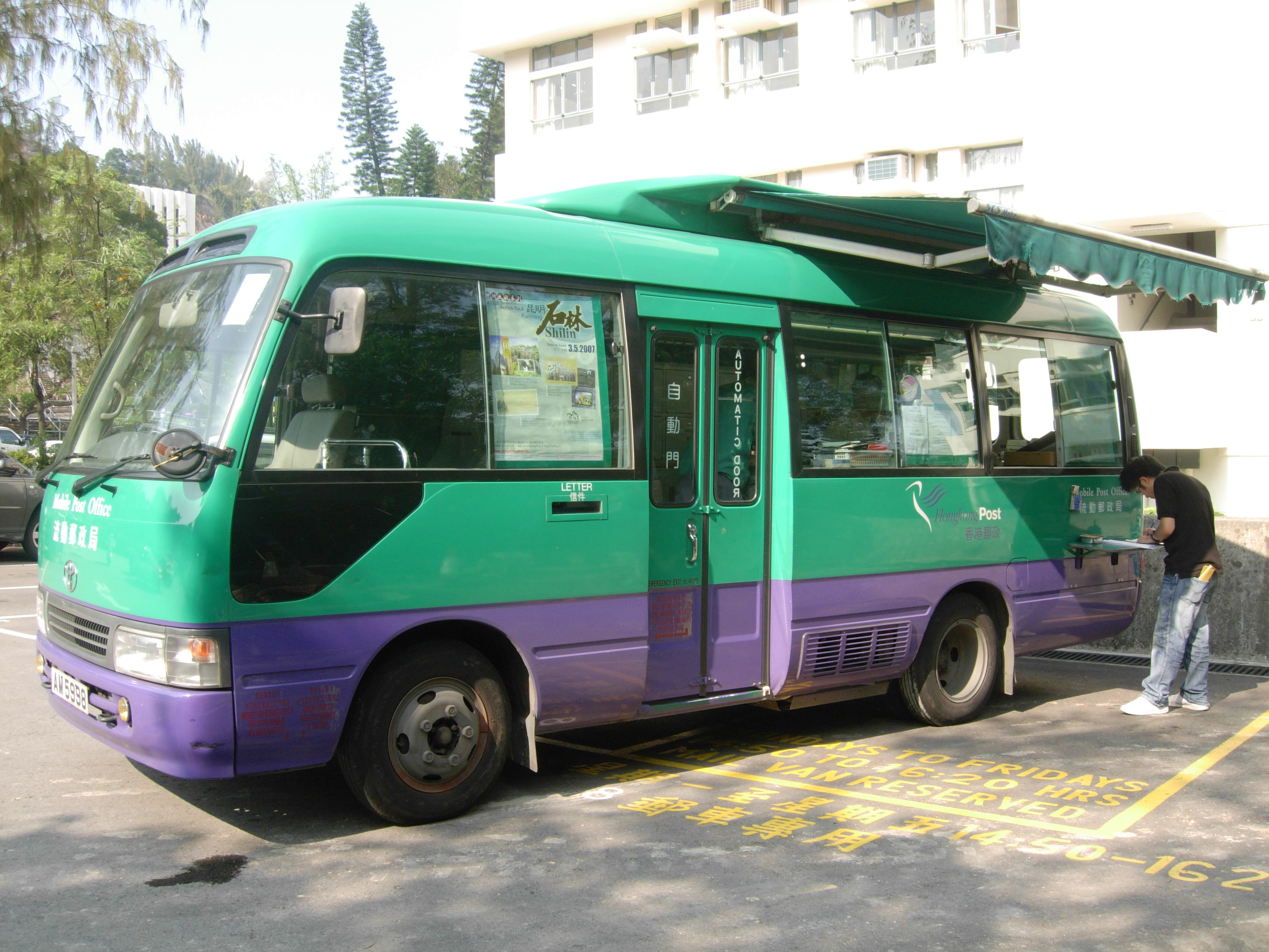 A Hongkong Post mobile post office serving near John Fulton Centre, the Chinese University of Hong Kong Taken by Nxn 0405 chl on April 27, 2007